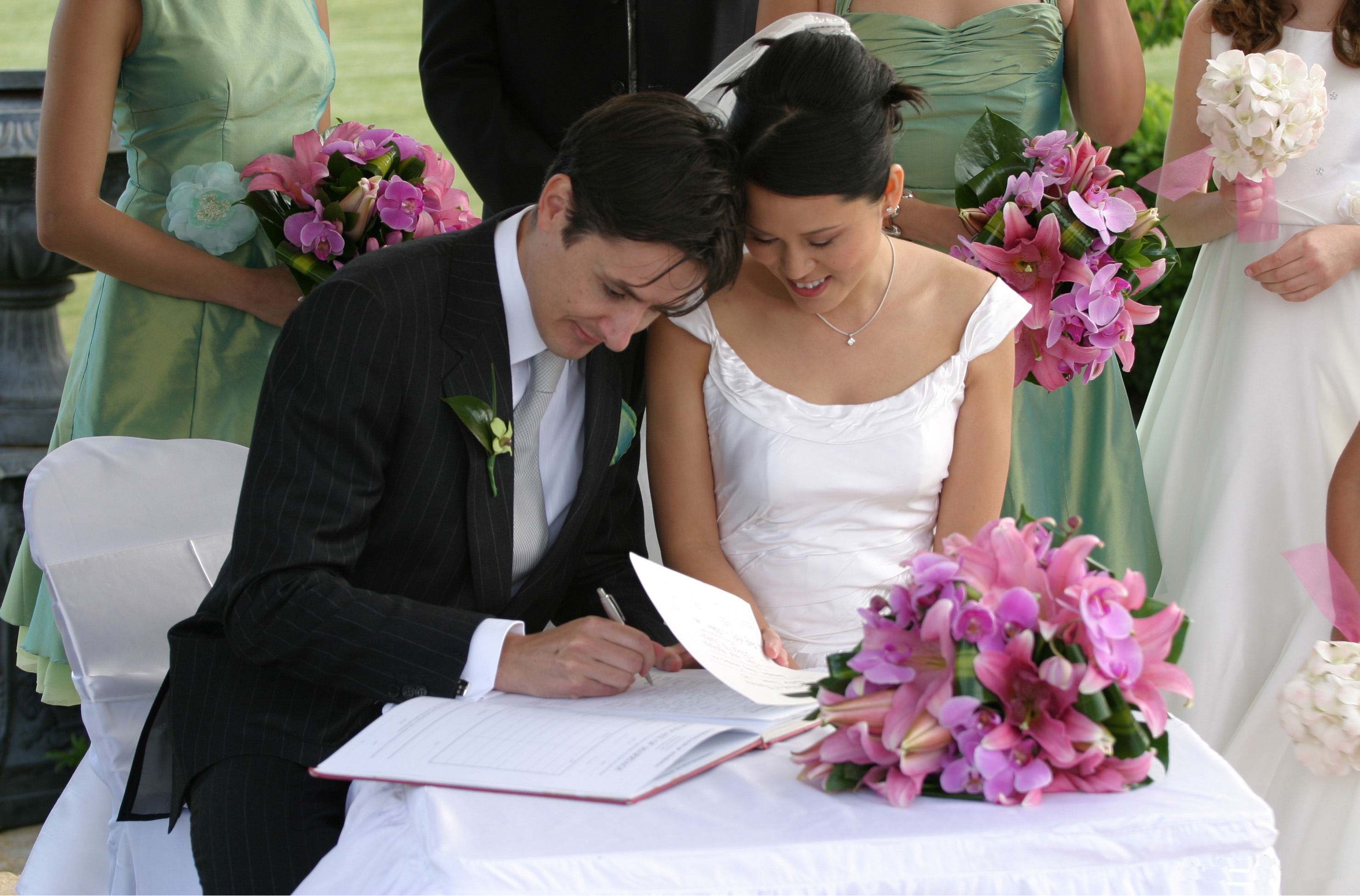 The bride and groom sign the book after their wedding ceremony is complete.